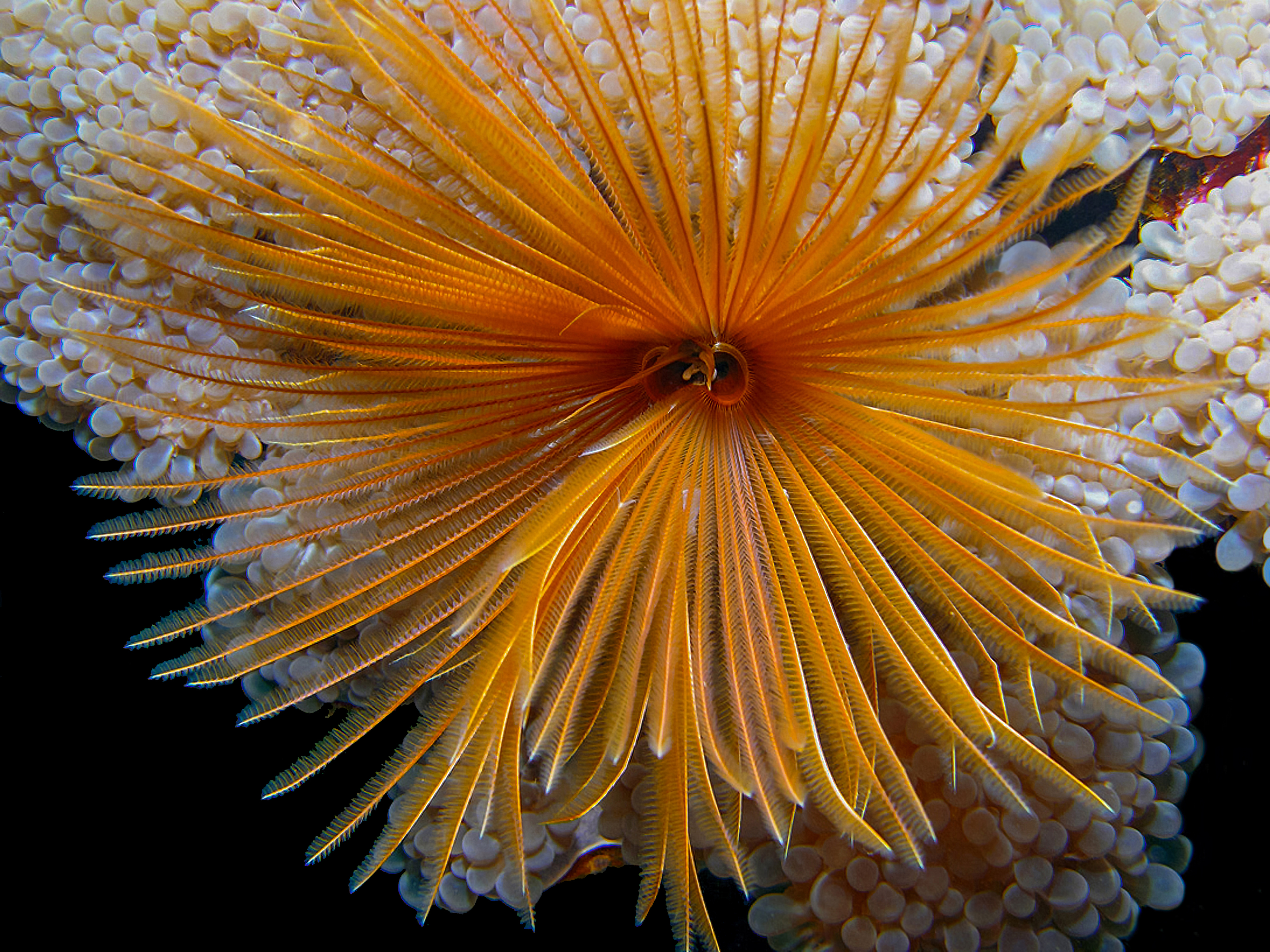 Animal life on the gunnels of sunken ships in Truk Lagoon, Chuuk State, Micronesia.